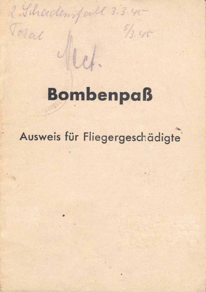 Cover of a so-called “Bombing Card” for victims of bombing raids on Braunschweig.